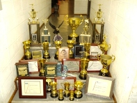 EESC-USP Aerodesign Team's trophies and awards